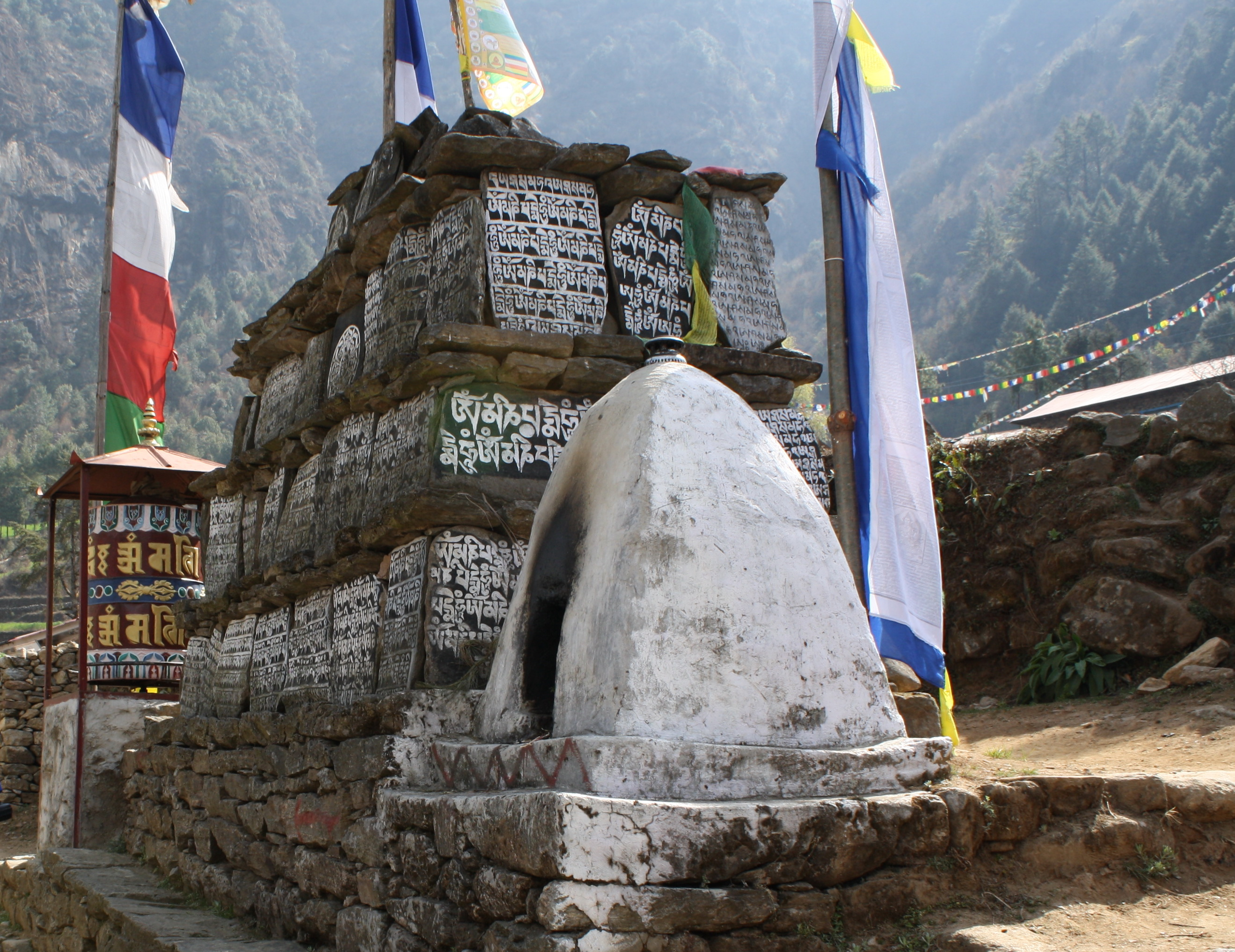 Mani stone near Phakding village, in the trail from Lukla to Namche Bazaar, Nepal.